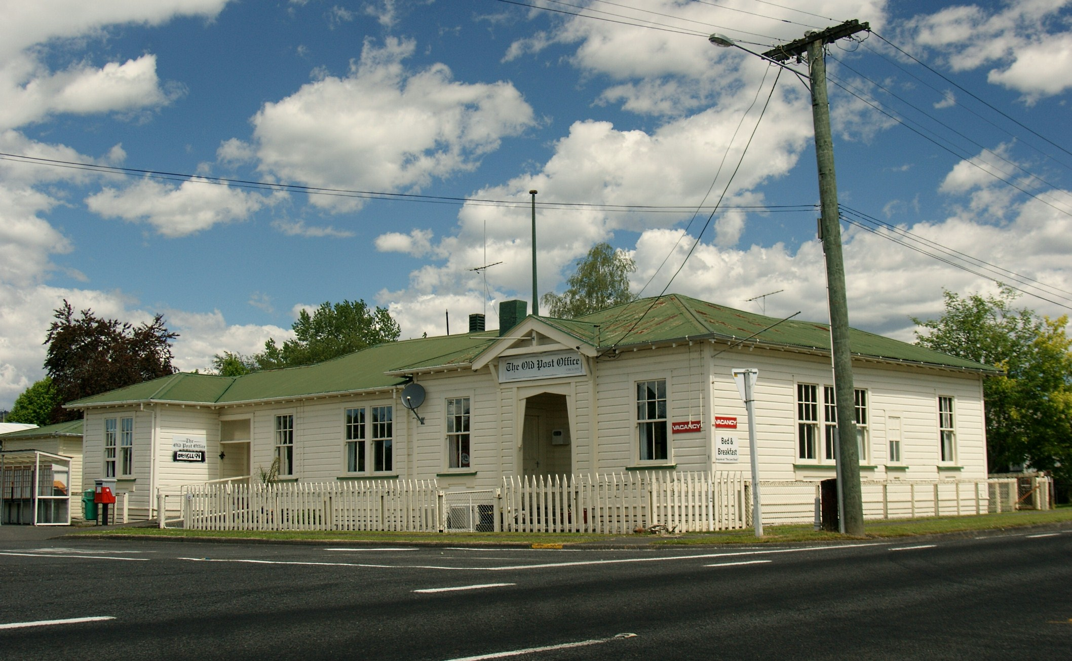 The Owhango Post Office was built in 1919 and still in good condition. It was used as the postal and social centre of Owhango, with counter mail service, telephone exchange and supply of the usual postal requirements. Unfortunately due to restructuring of NZ Post, it was closed in 1989, the little community then being "serviced" just by community mail boxes. The building is now homestyle accommodation.